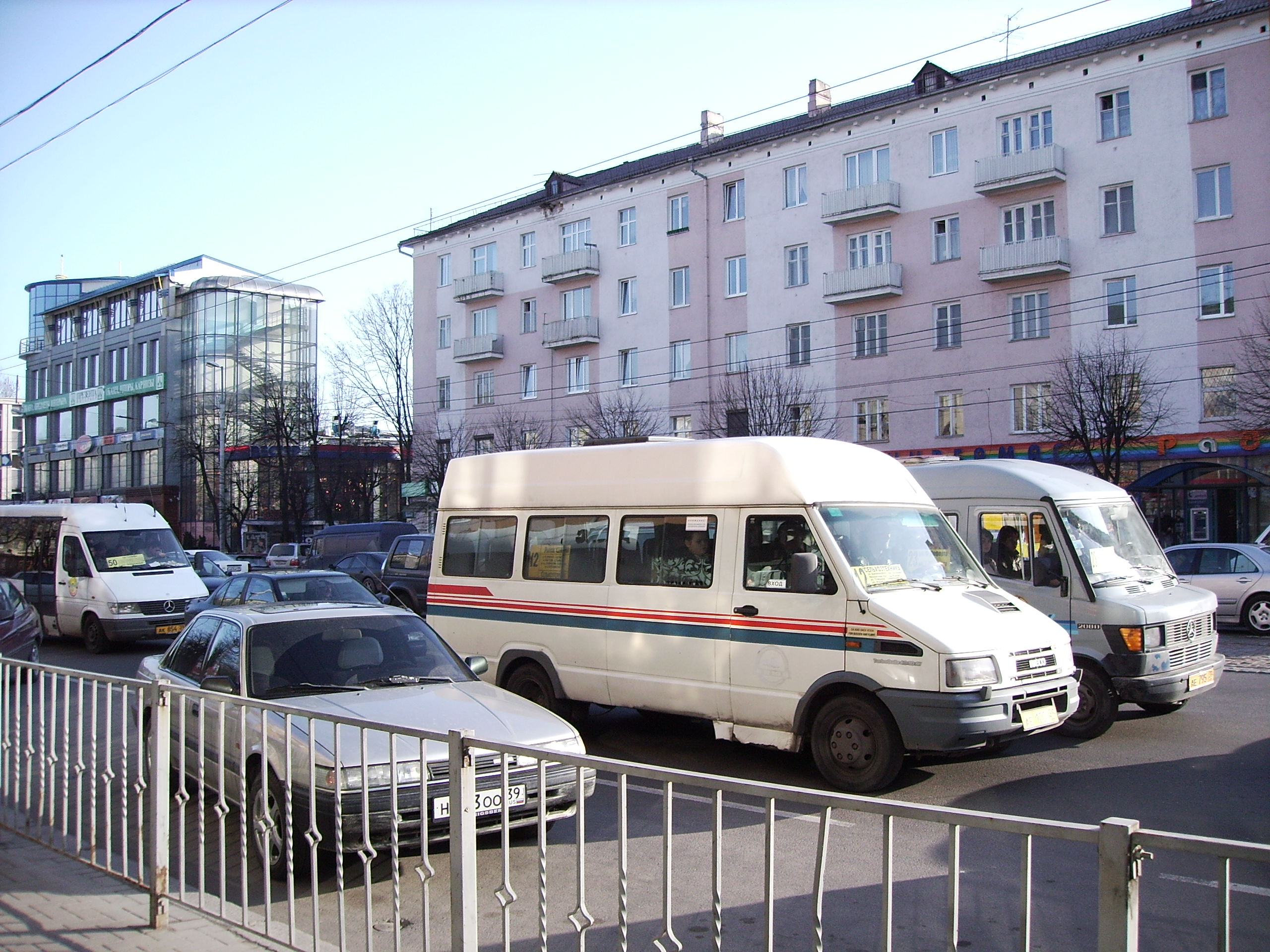 Marshrutka in Kaliningrad, Lenin avenue.